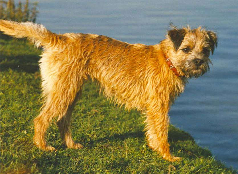 A one-year-old pedigree border terrier bitch